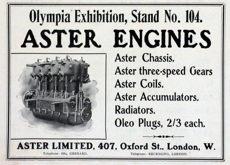 Aster advert from varied UK trade press circa February 1905, for Olympia exhibition - engines, chassis, gears, coils, accumulators. Scanned copy of image located at Graces Guide to British Industrial History.